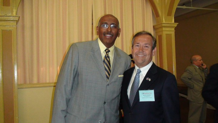 Rhode Island Gubernatorial Candidate John Robitaille and Republican National Committee Chariman Michael Steele